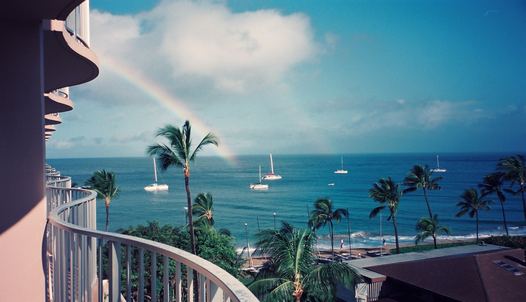 Coast seen from The Westin Maui Resort & Spa 1997